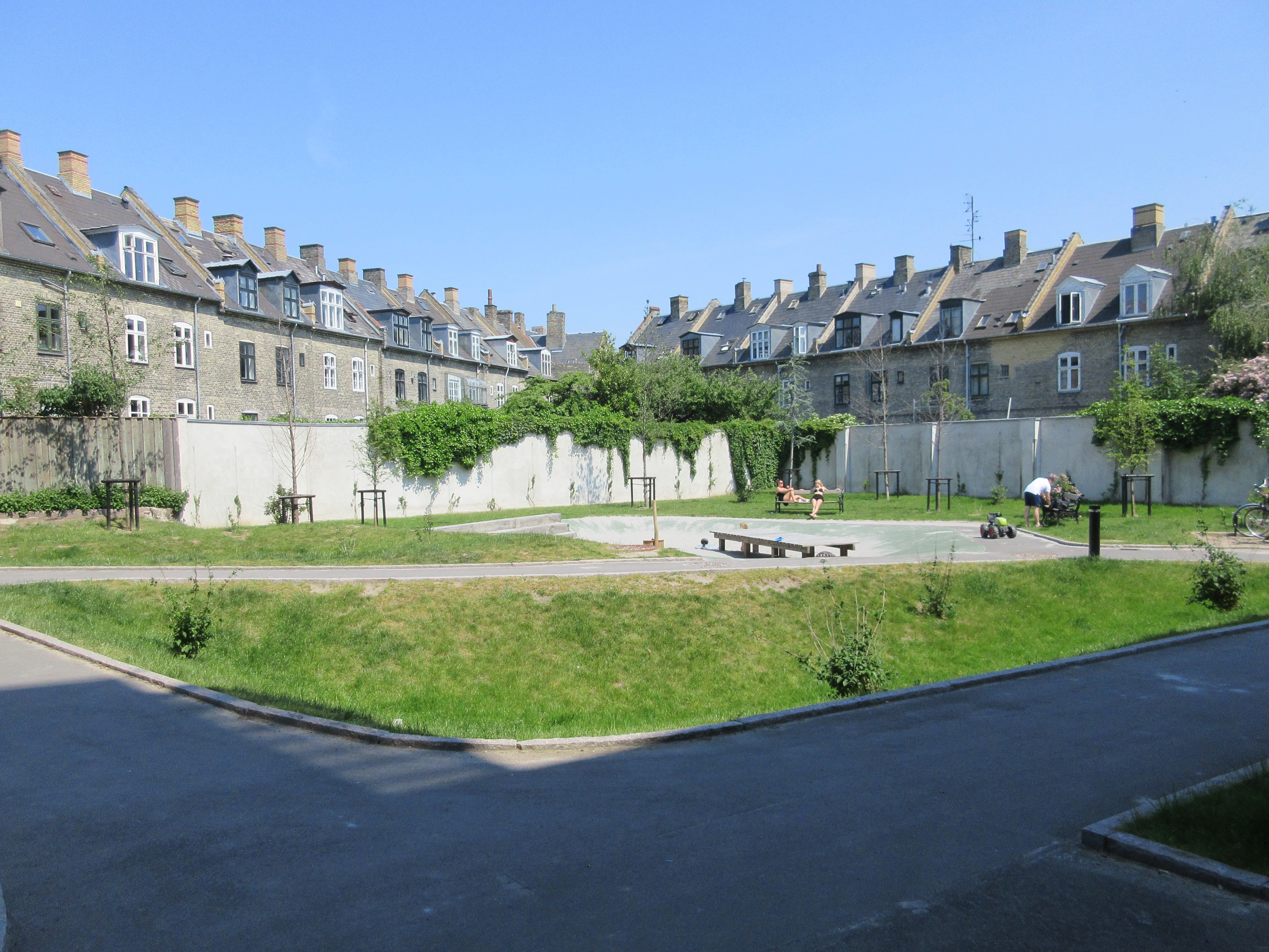 Vesten for Humlen in Copenhagen, Denmark